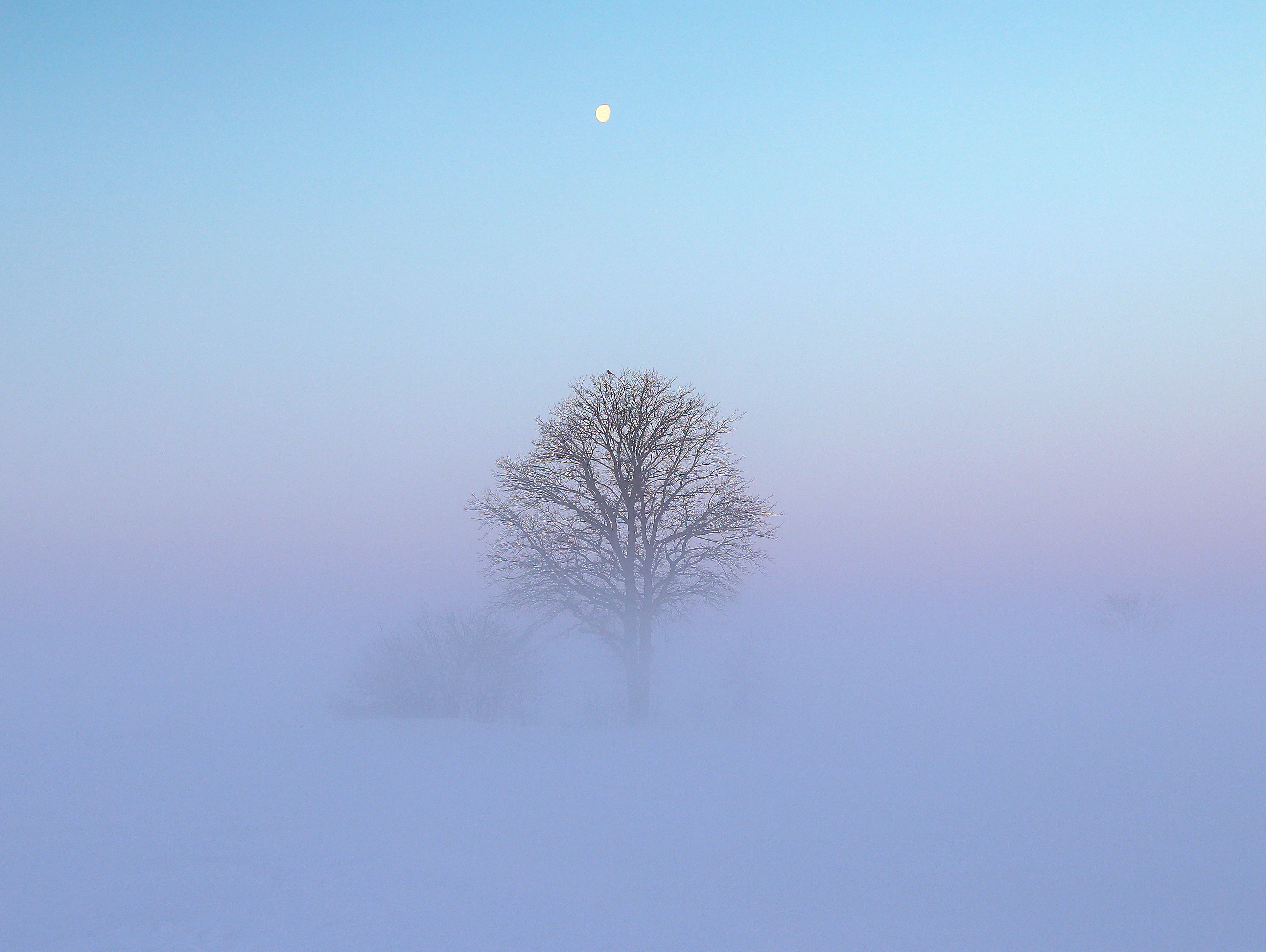 Frozen fog during extreme cold with tree in farmers field at daybreak